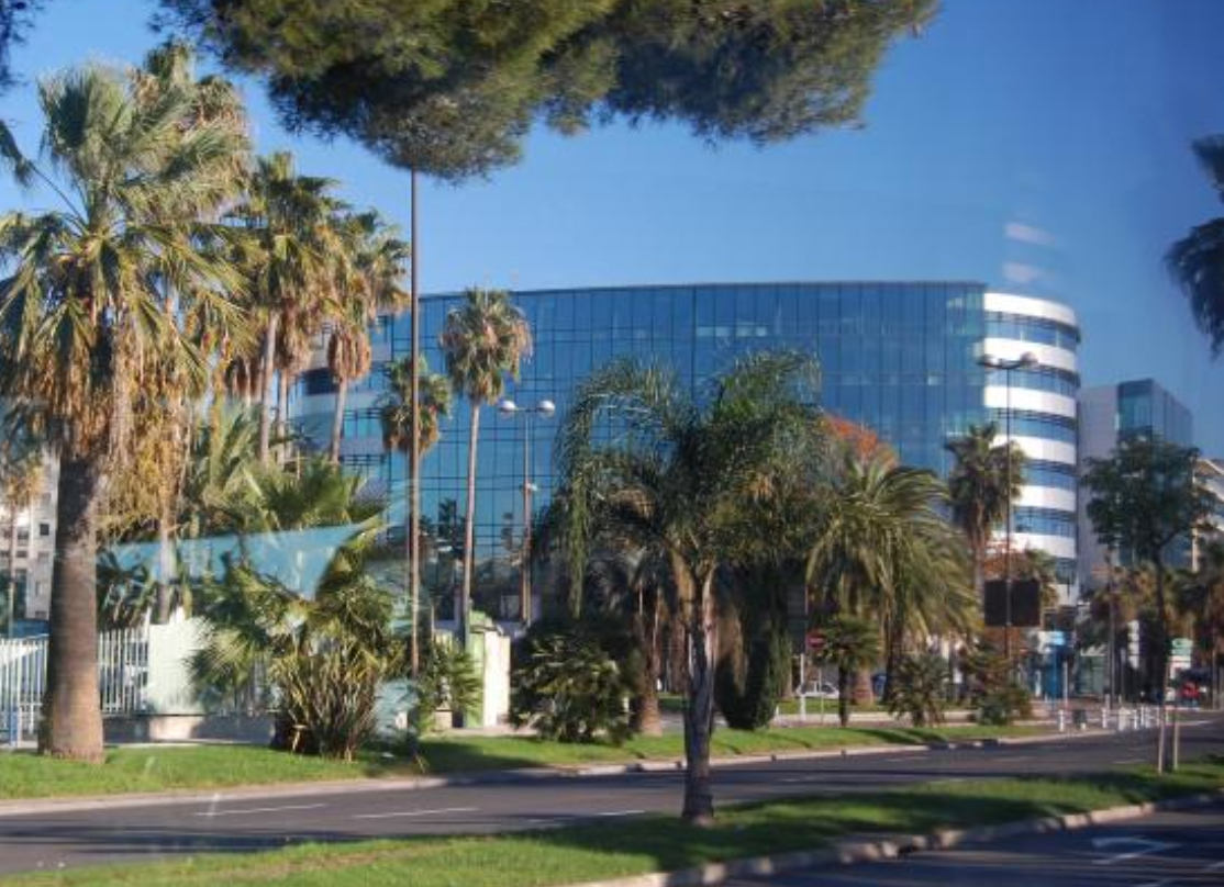 Edhec Nice main building